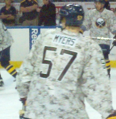 Tyler Myers during pre-game warm-ups.